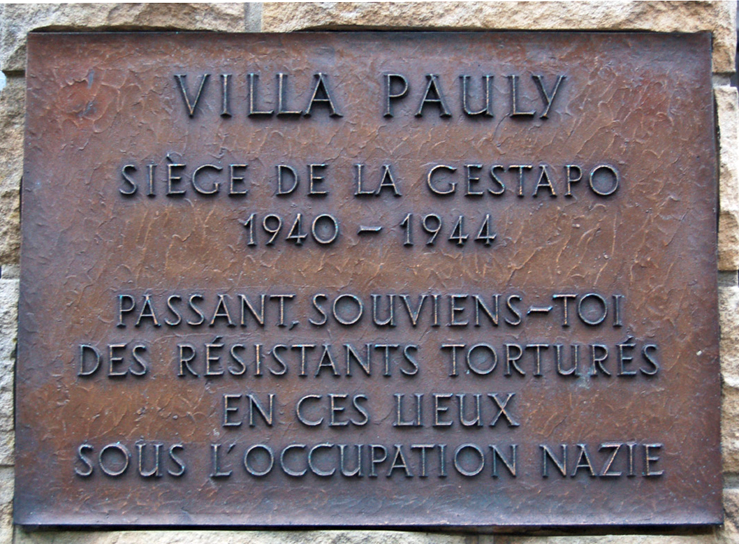 Commemoration Plate at the Villa Pauly in Luxembourg City.